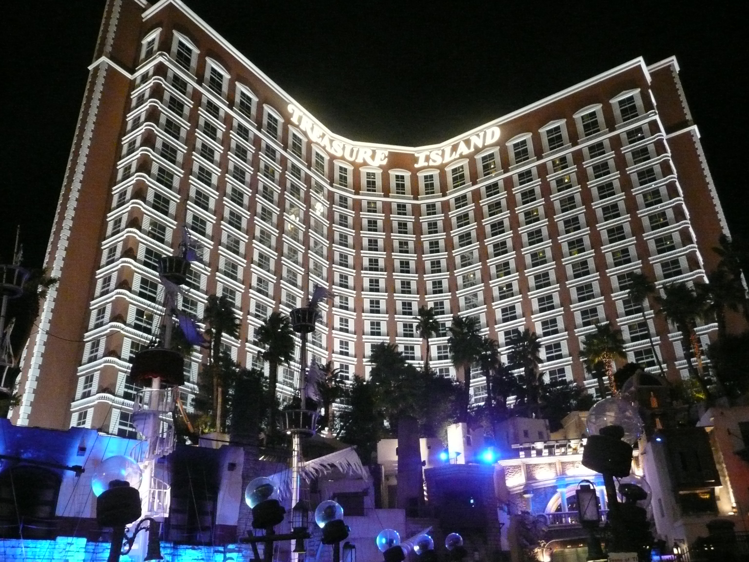 Treasure Island on the Las Vegas Strip